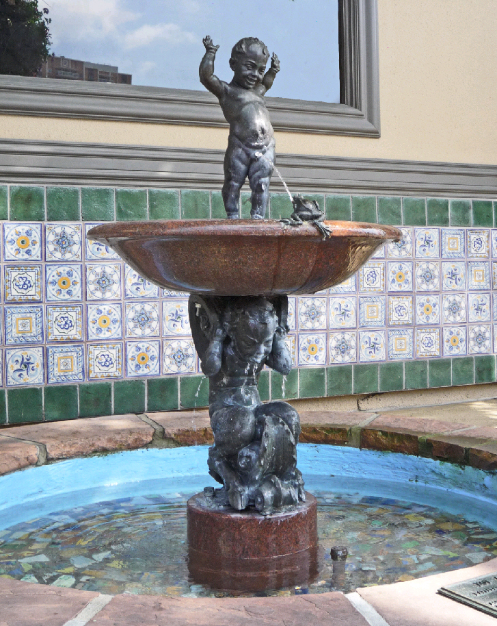 "Boy and Frog," fountain by Raffaello Romanelli (Italian) in Kansas City, Missouri